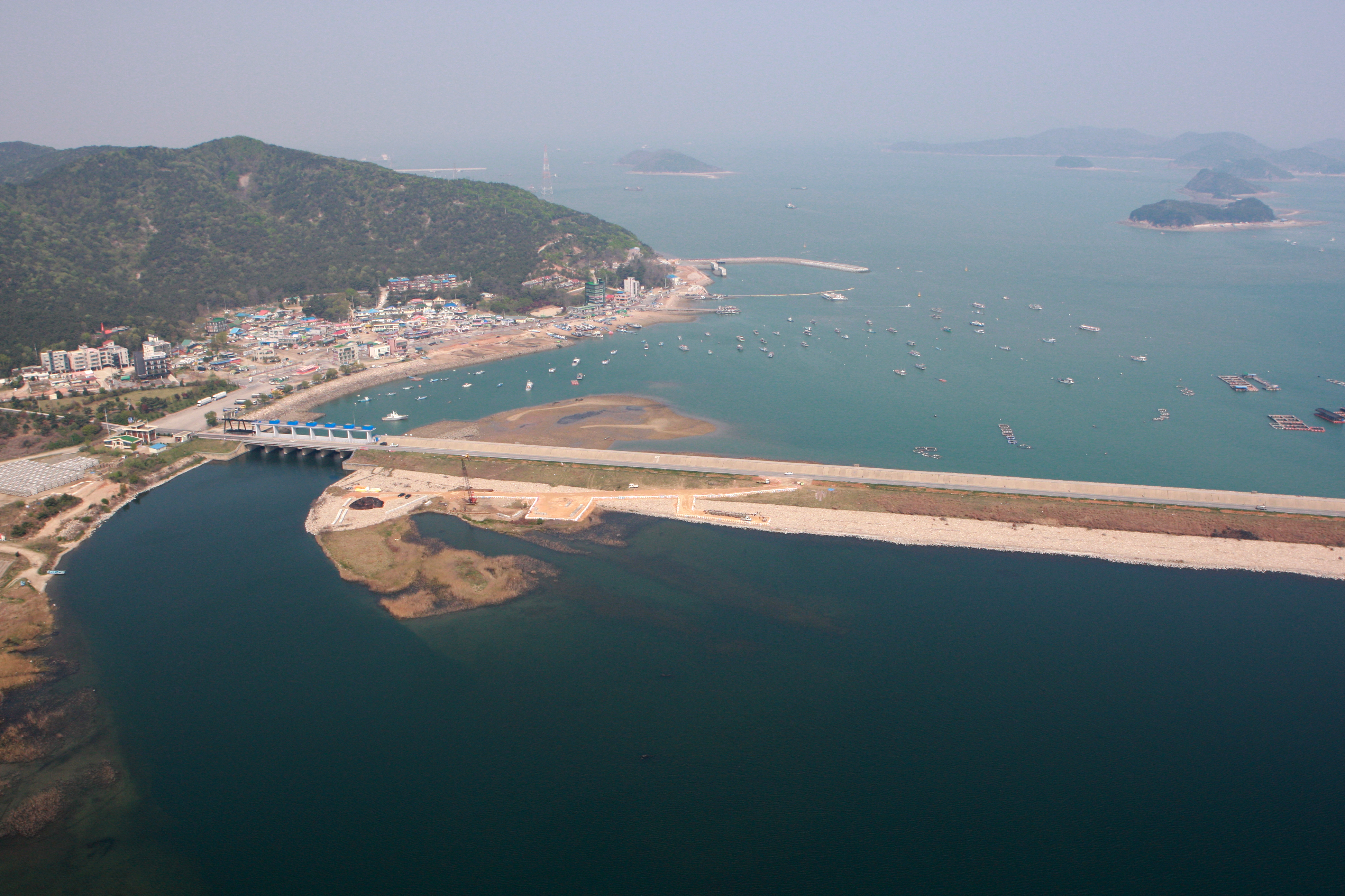 Sangilpo Port